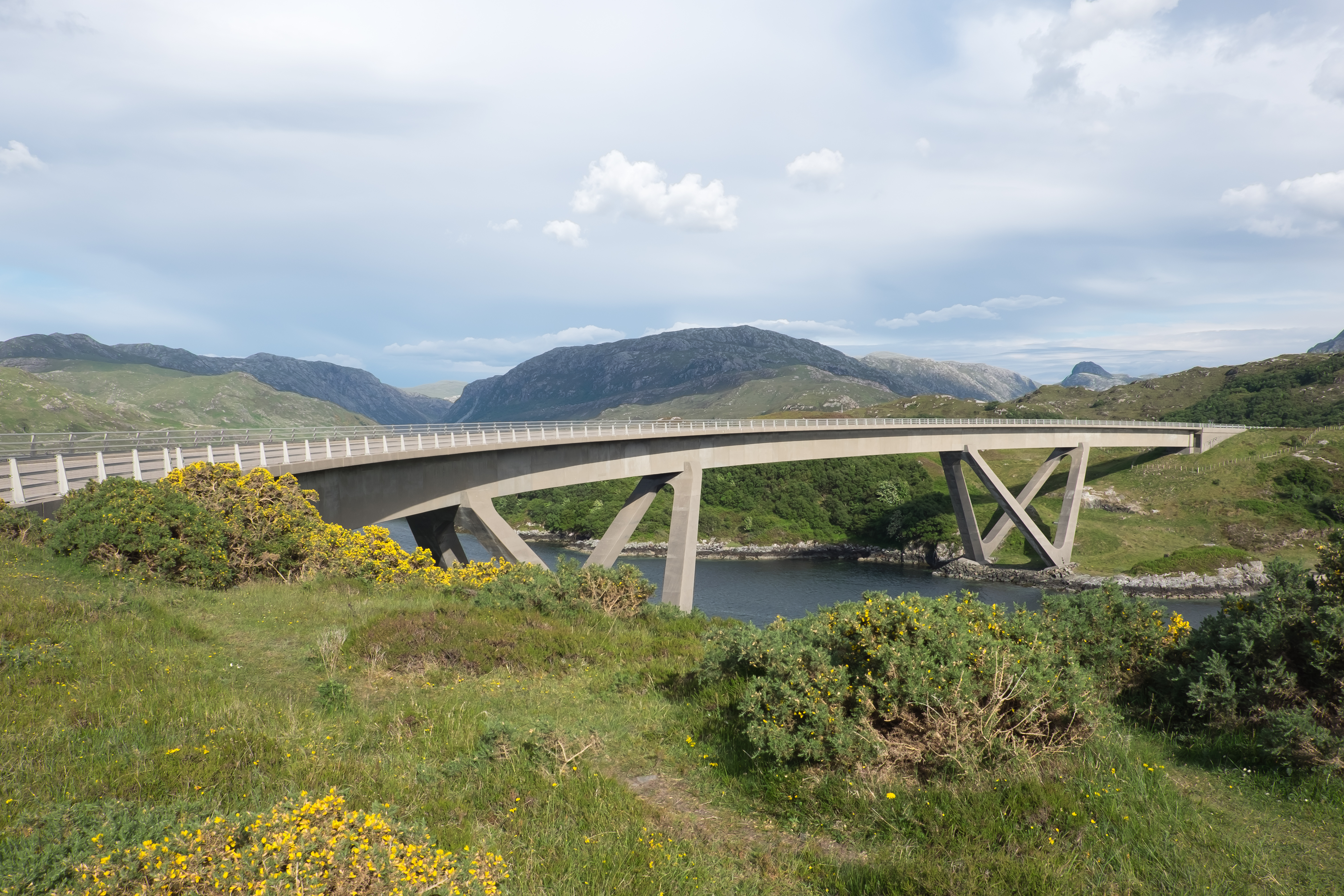 Kylesku Bridge, north-west Scotland